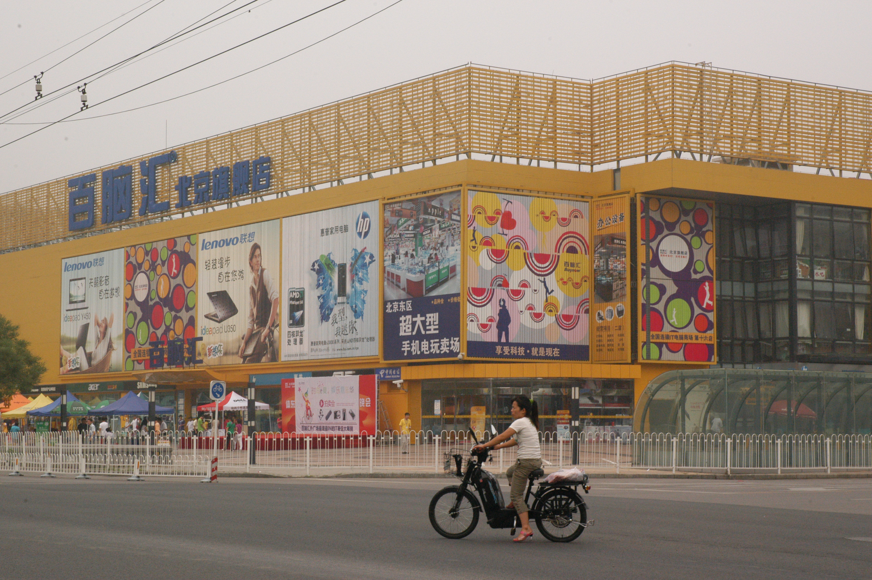 Rare view of no cars on Beijing streets. Beijing, China.